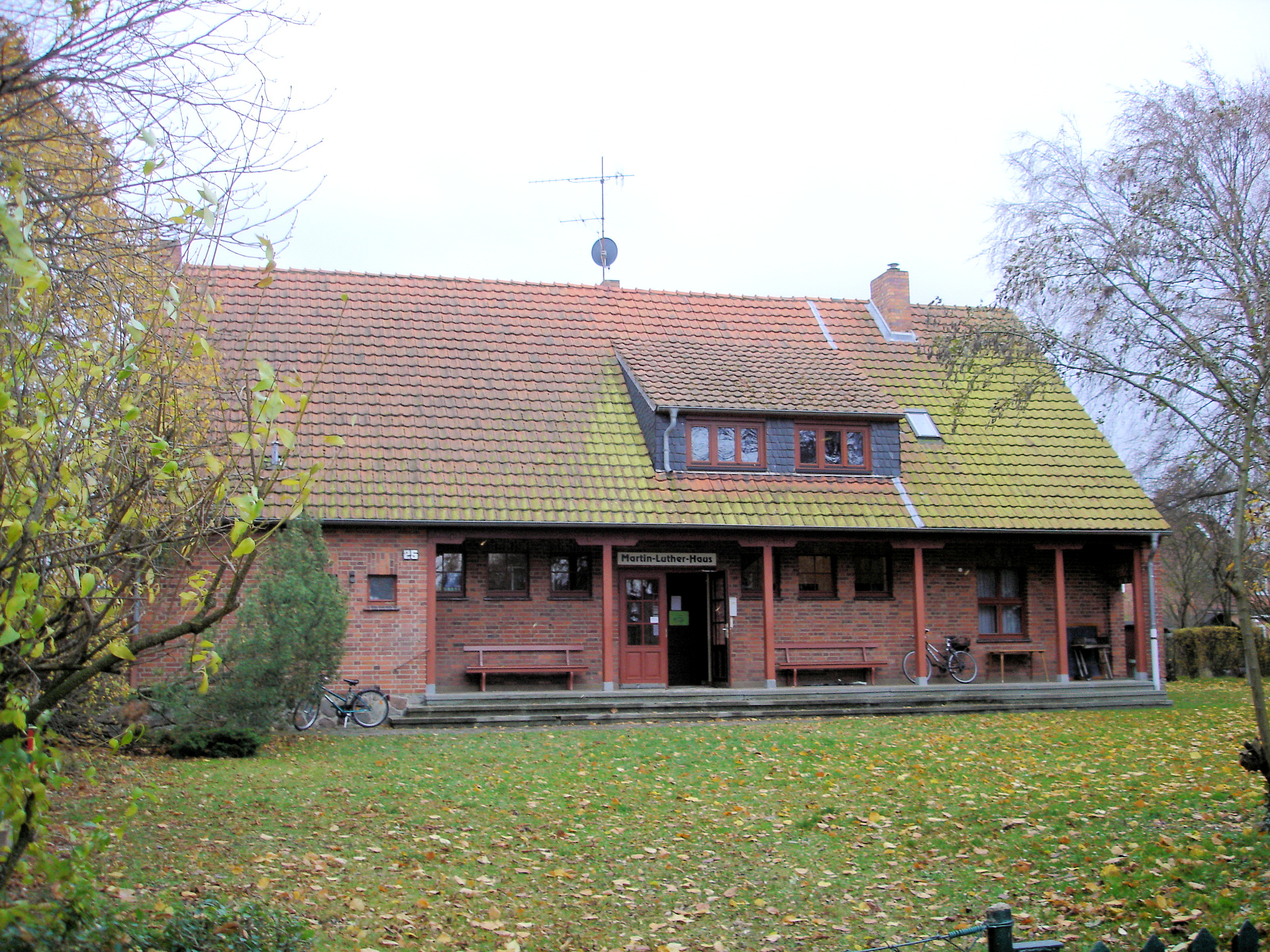 Church Lutherhaus in Rostock, Mecklenburg, Germany